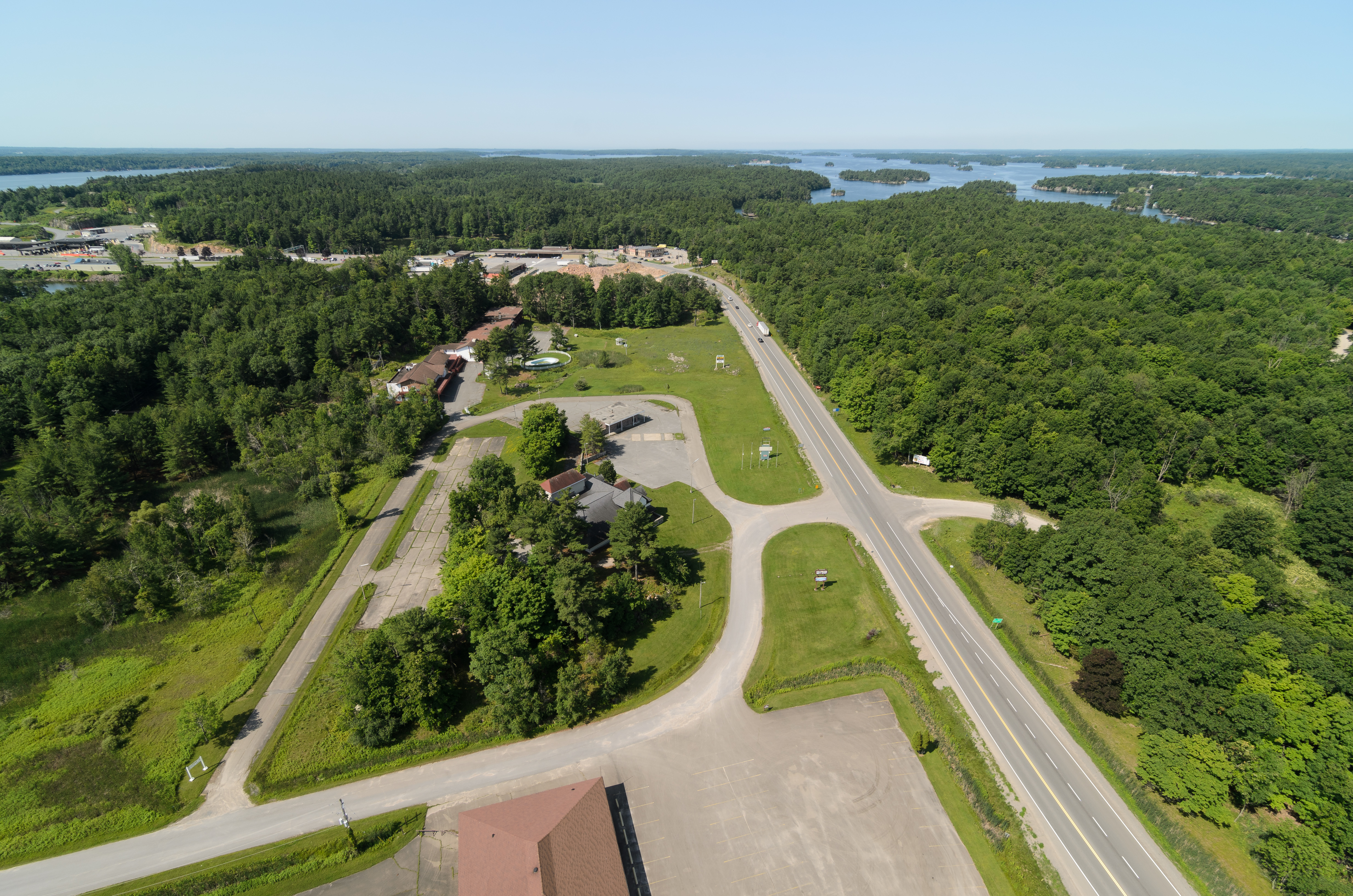 View to the southwest from the 1000 Islands Tower, Hill Island, Ontario.